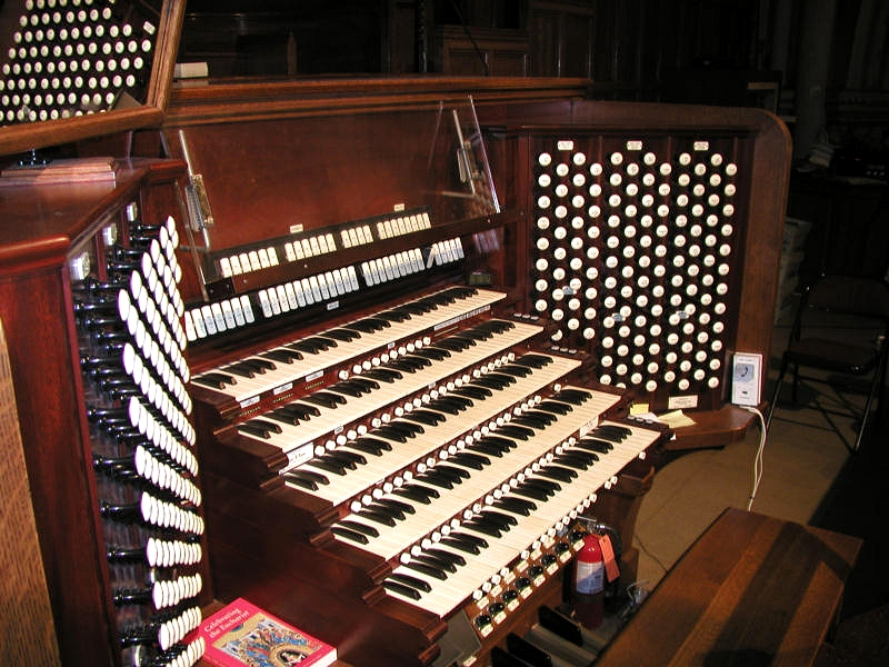 St Patricks Cathedral Gallery Console